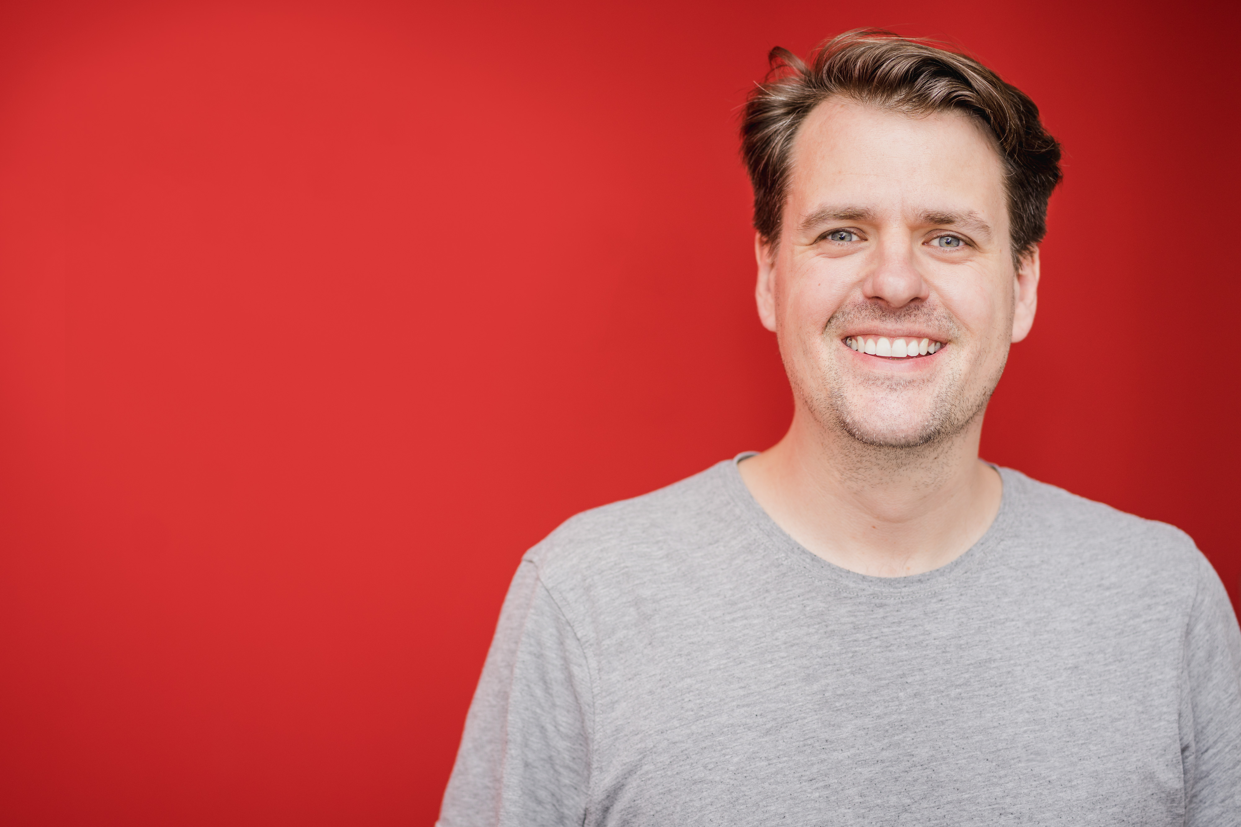 Stephan Dörner, German journalist and editor-in-chief of t3n.de